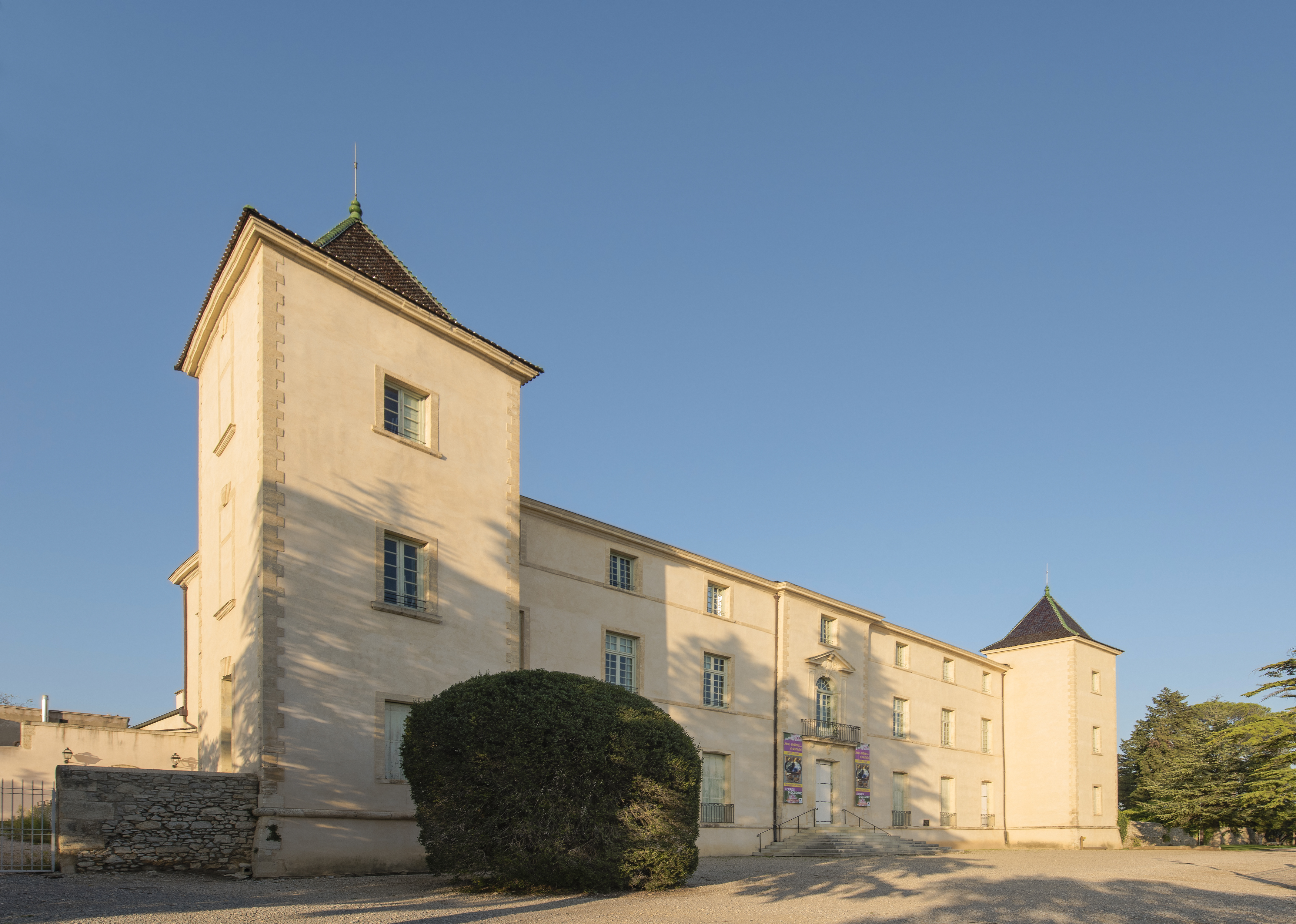 Castle of Restinclières (XVIIth century) in the Domaine départemental de Restinclières. Main facade (southern). Prades-le-Lez, Hérault, France.